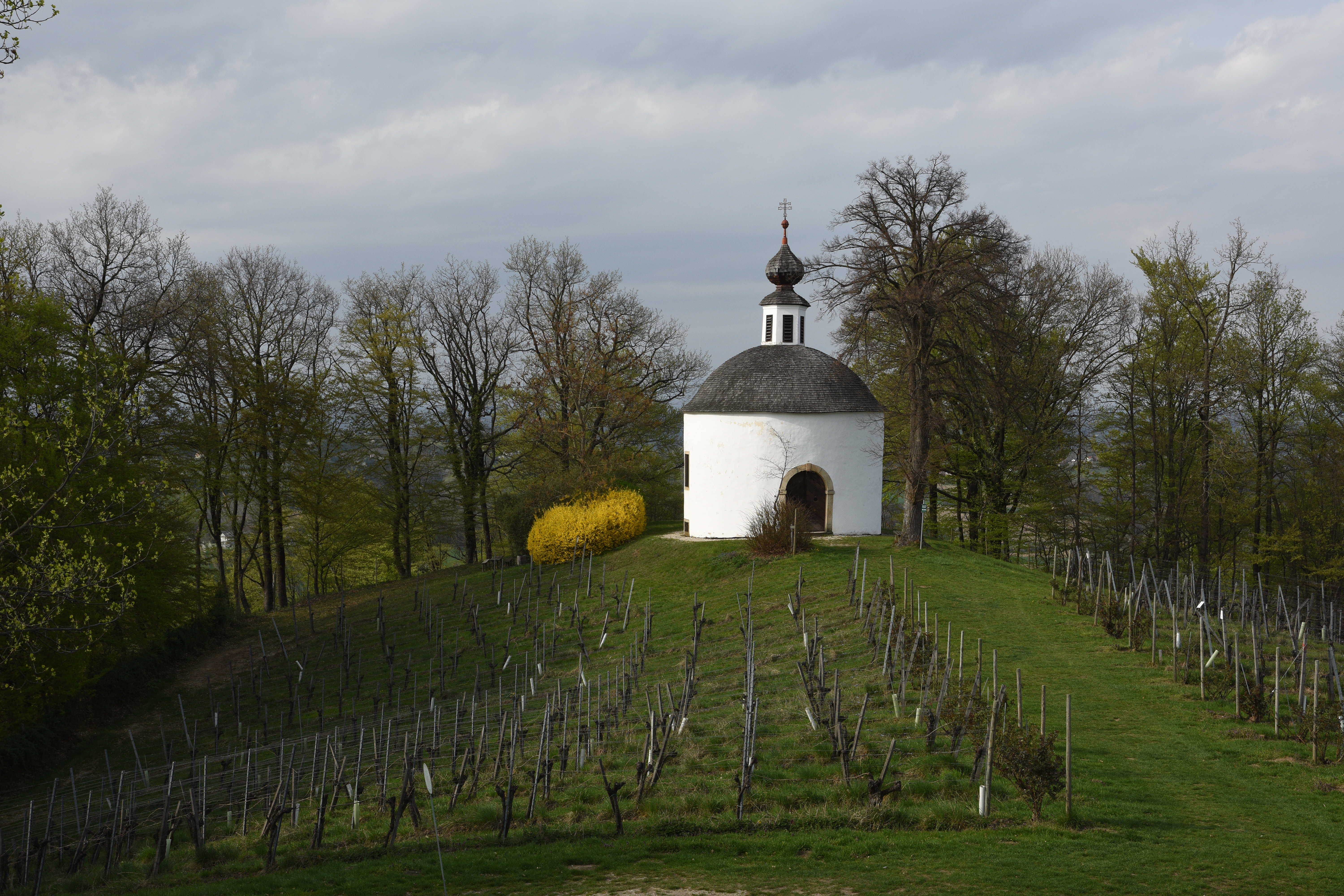 Chapel Mahrensdorf Kapfenstein